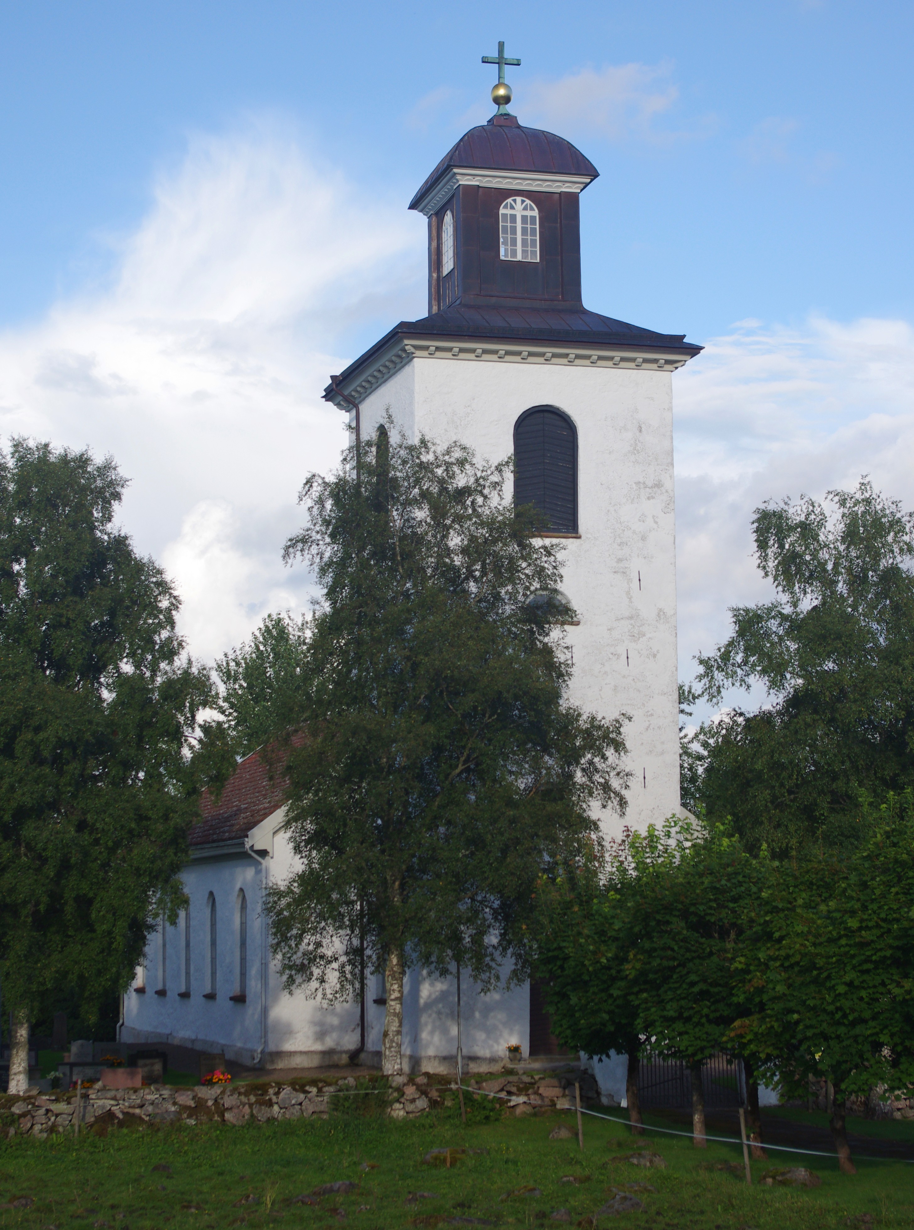 Böne church in Ulricehamn municipality, Västergötland and Västra Götaland county, Sweden.